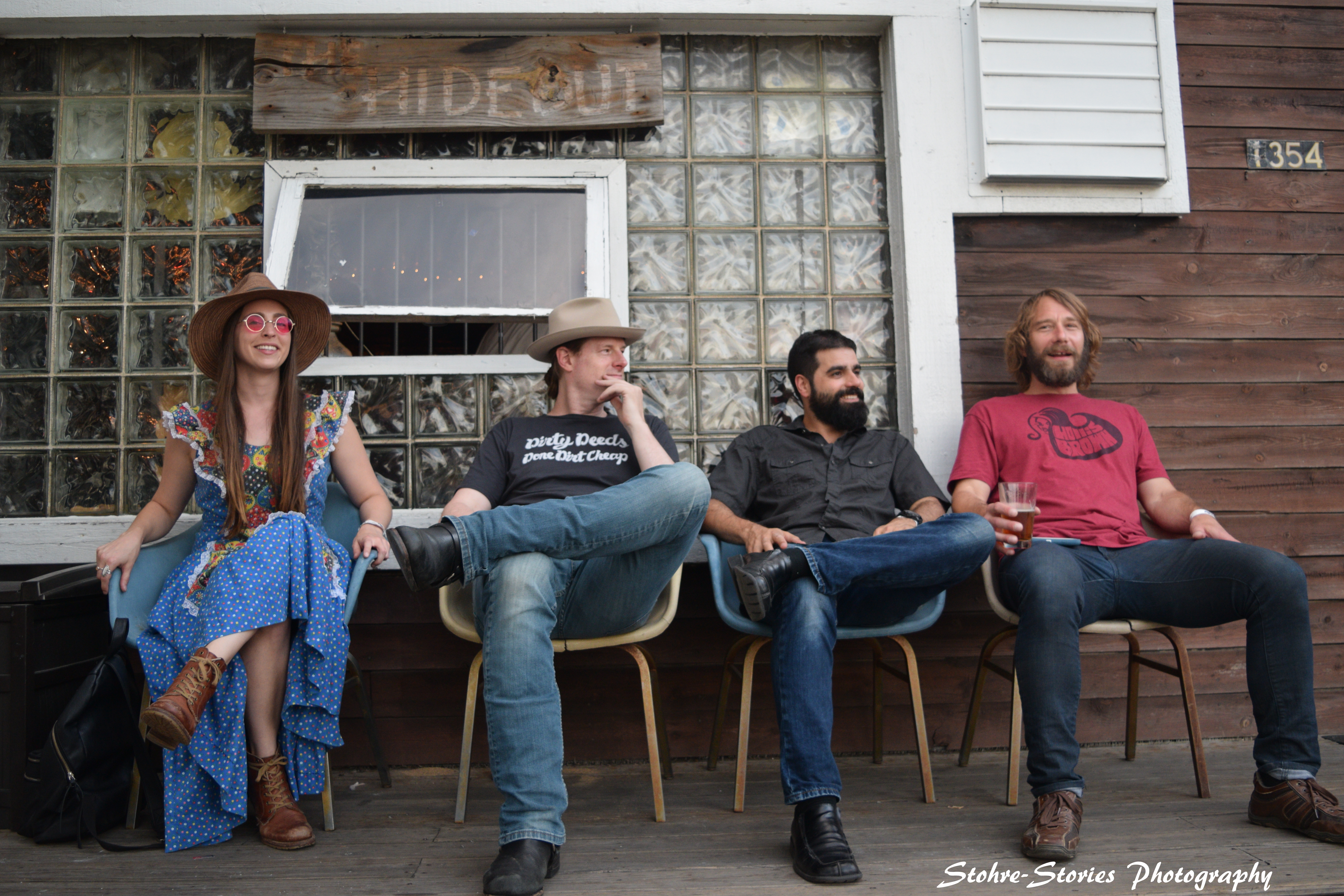 From left to right, Angela Perley (guitar, vocals, musical saw), Chris Connor (guitar), Aaron Bishara (drums), and Billy Zehnal (bass) at The Hideout in Chicago, Illinois